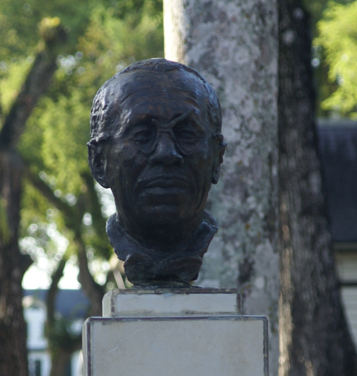 Bust of Eddy Snijders, composer, Zeelandiaweg, Paramaribo, Surinam. By Erwin de Vries, 2003. Detail.